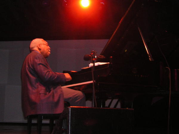 Picture of Ellis Marsalis, Jr. performing at Hartwood Acres in Pittsburgh, Pennsylvania, on June 6, 2004.